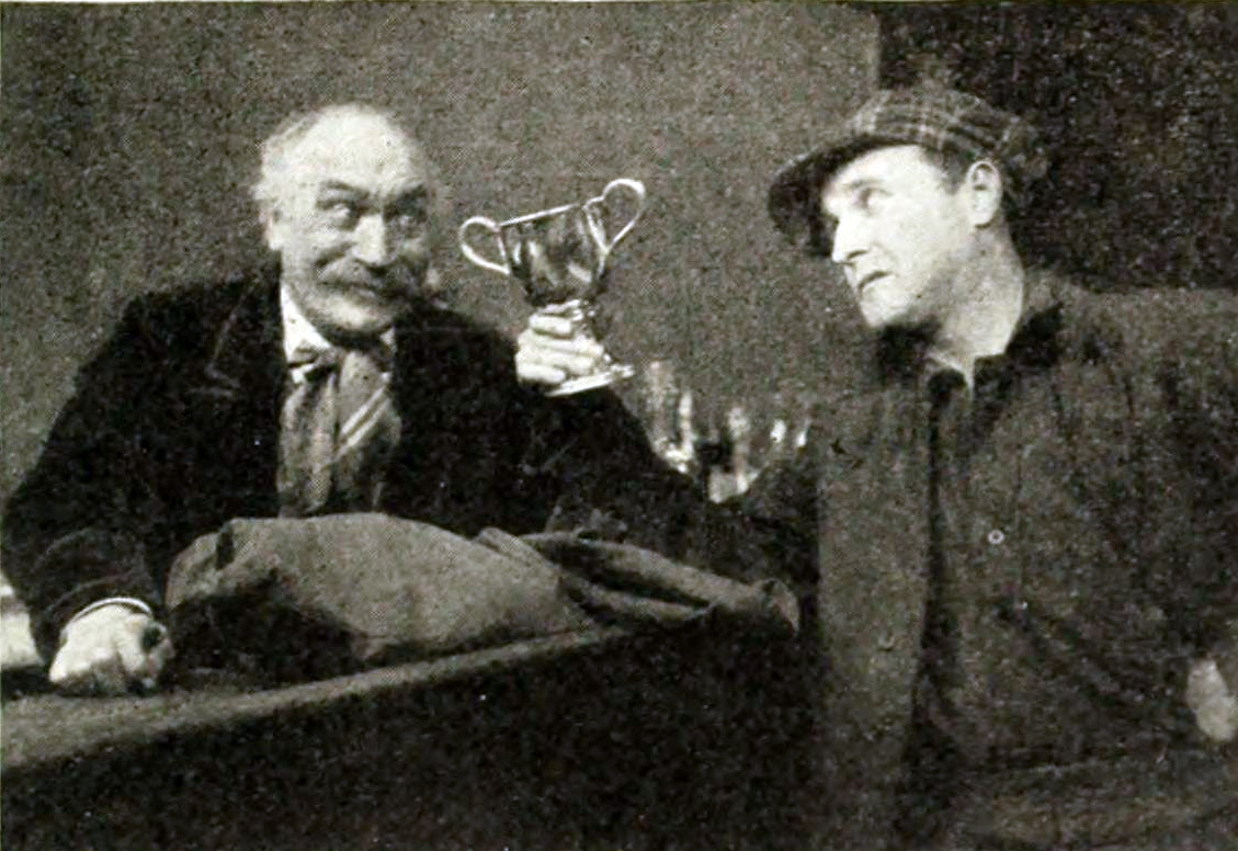 Illustration of a review in The Moving Picture World for the film The Redemption of Dave Darcey (1916).